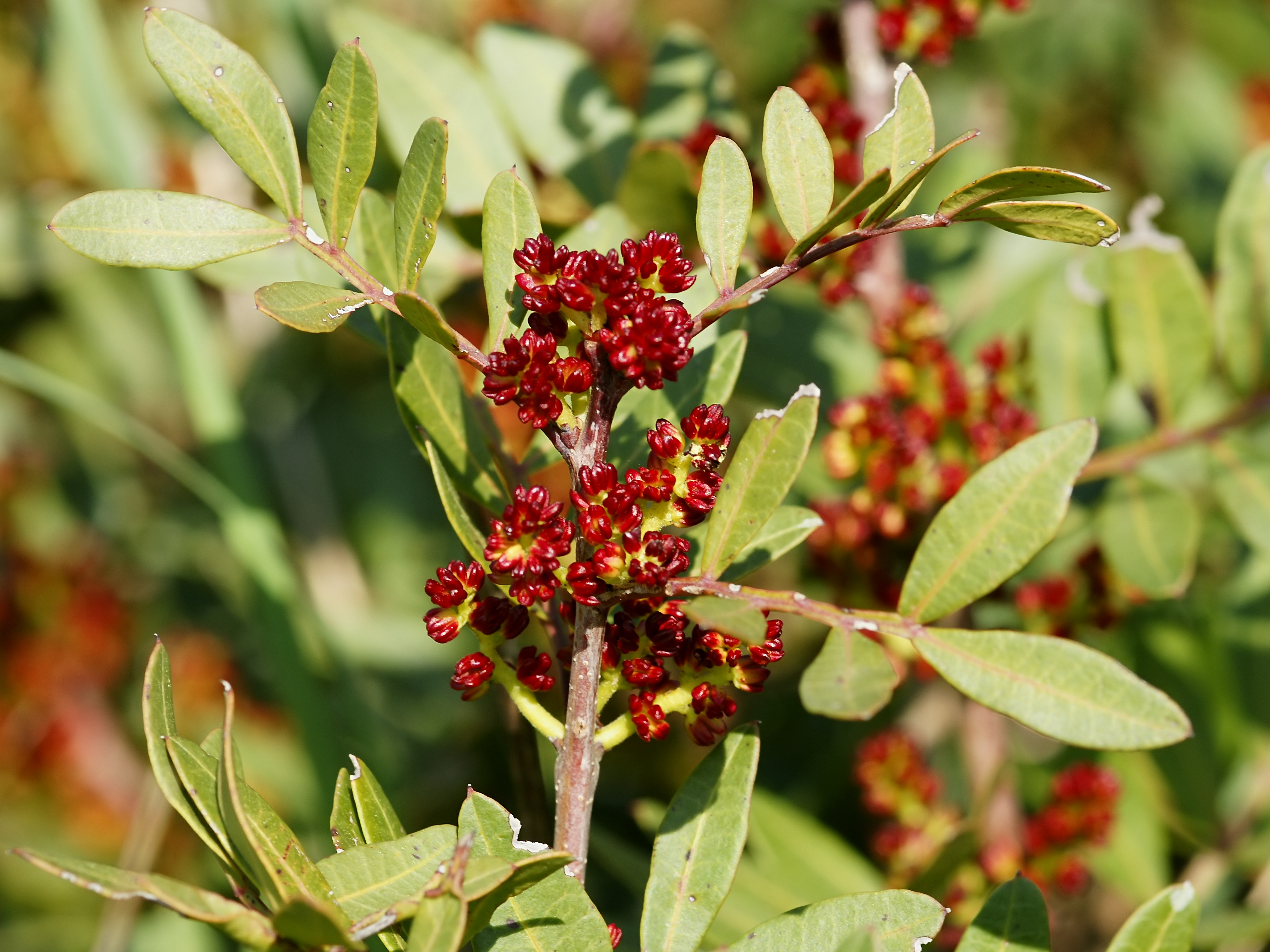 Grape hyacinth near Cala Ses Salinas, Mallorca.